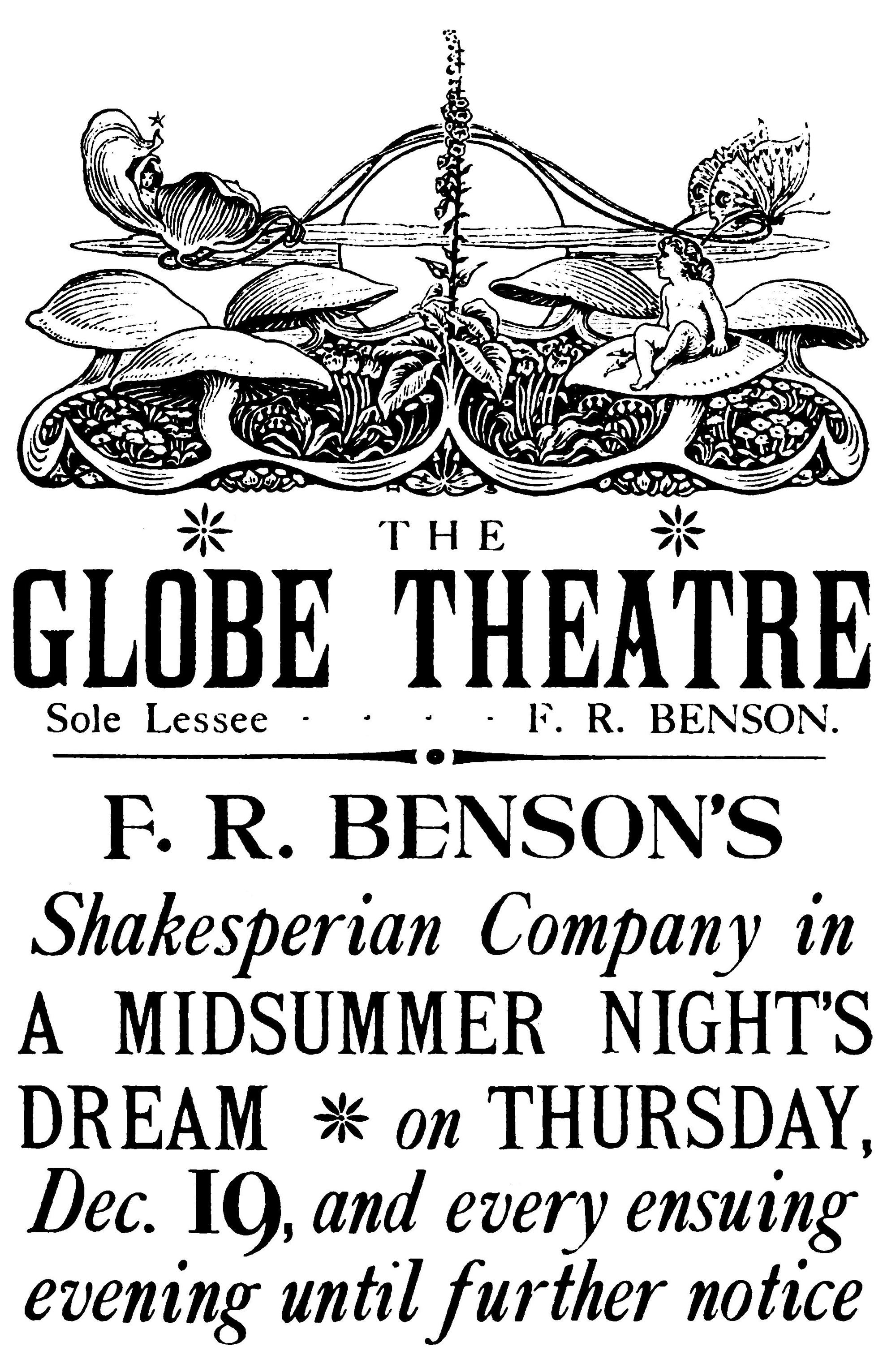 poster by heywood sumner for the globe theatre